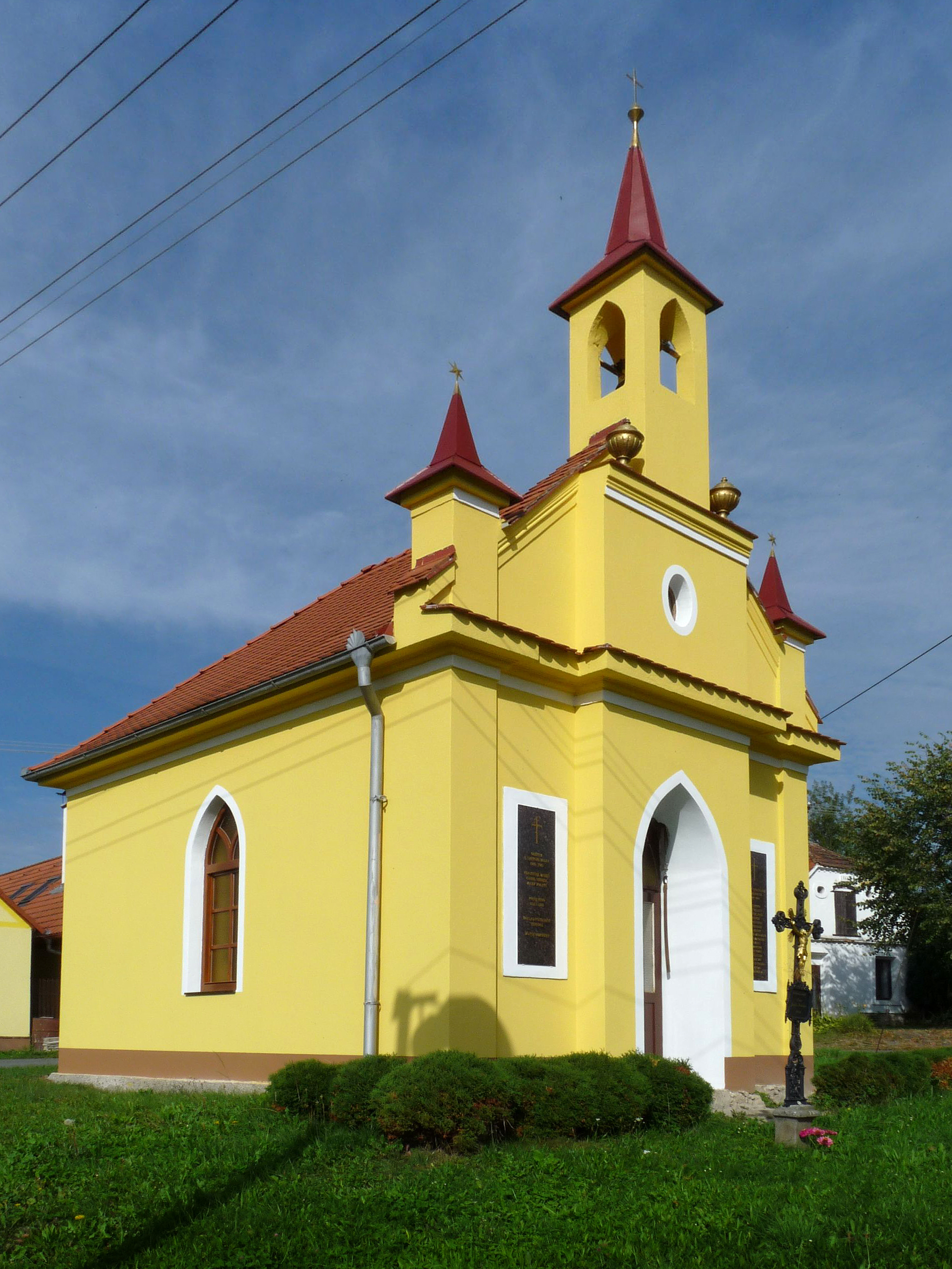 Chapel in the village of Čichtice, part of the town of Bavorov in Strakonice District, Czech Republic.